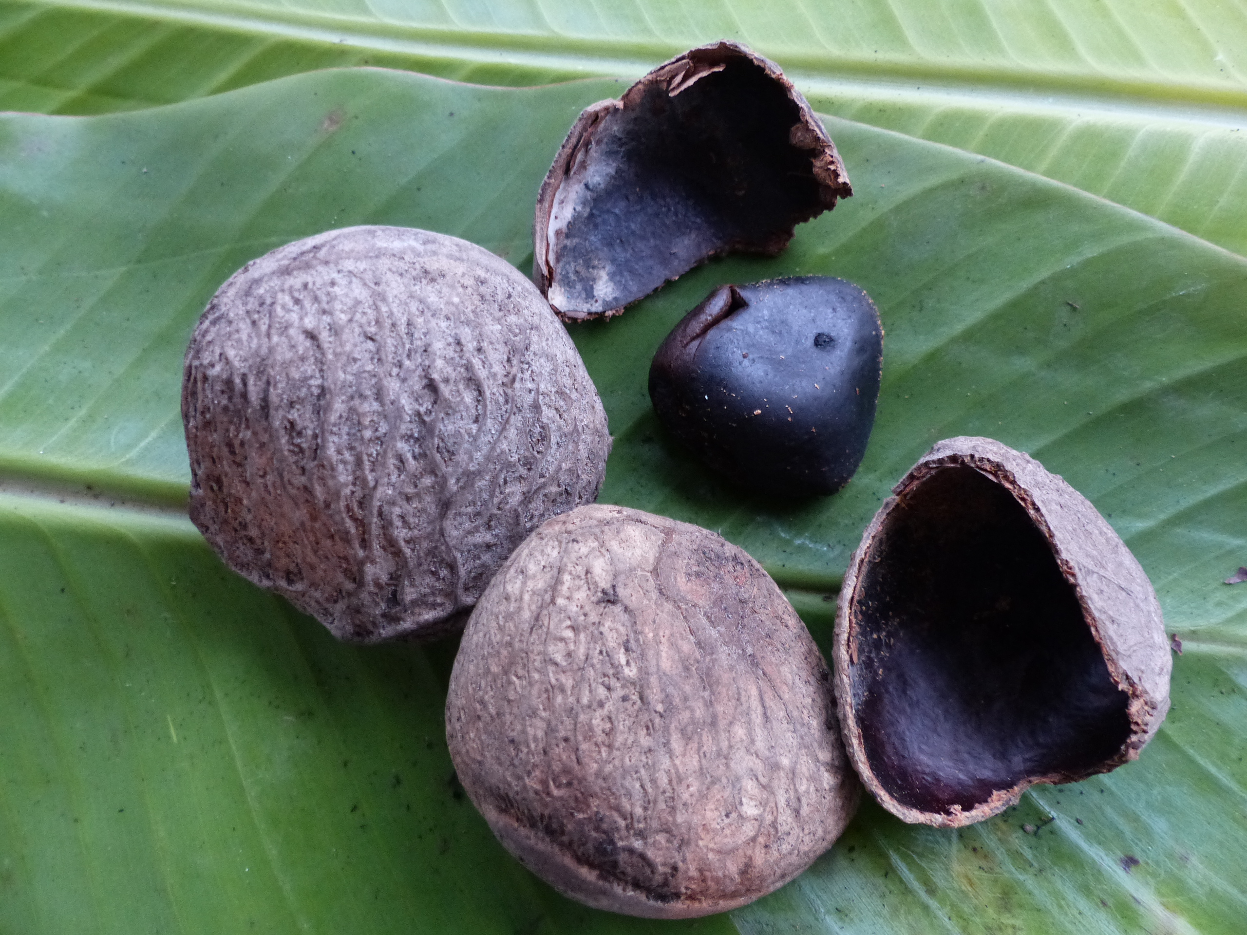 Pangium edule Keluak